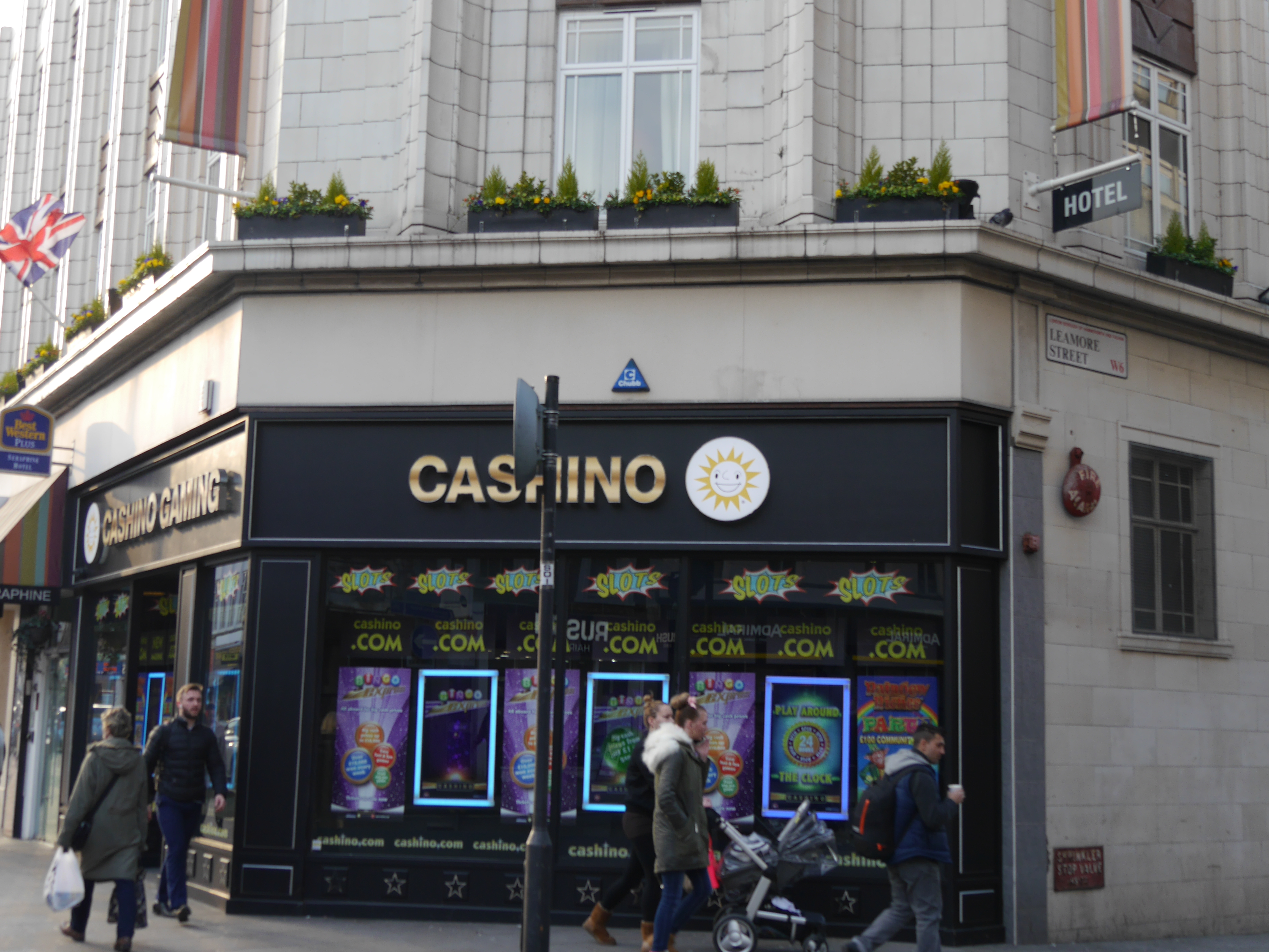 King Street, Hammersmith